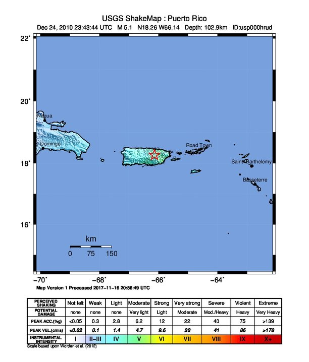 M 5.1 - Puerto Rico 2010-12-24 23:43:44 (UTC)